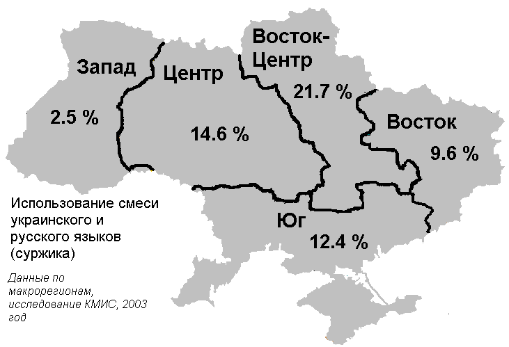 The Usage of the Surzhyk, a map with the Russian legenda